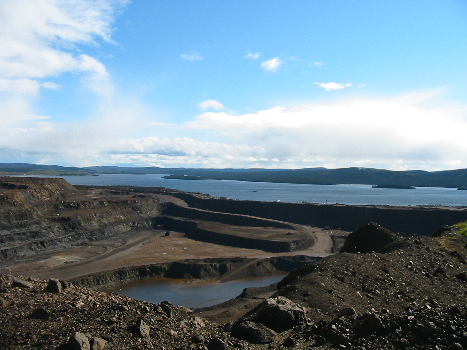 The following is the author's description of the photograph quoted directly from the photograph's Flickr page."The iron mine is much deeper than the lake next door, and they're constantly having to keep pumping the water out. The contrast between the stunning natural beauty of the area, and the scars of industry, is quite visible here.1 September 2003 "